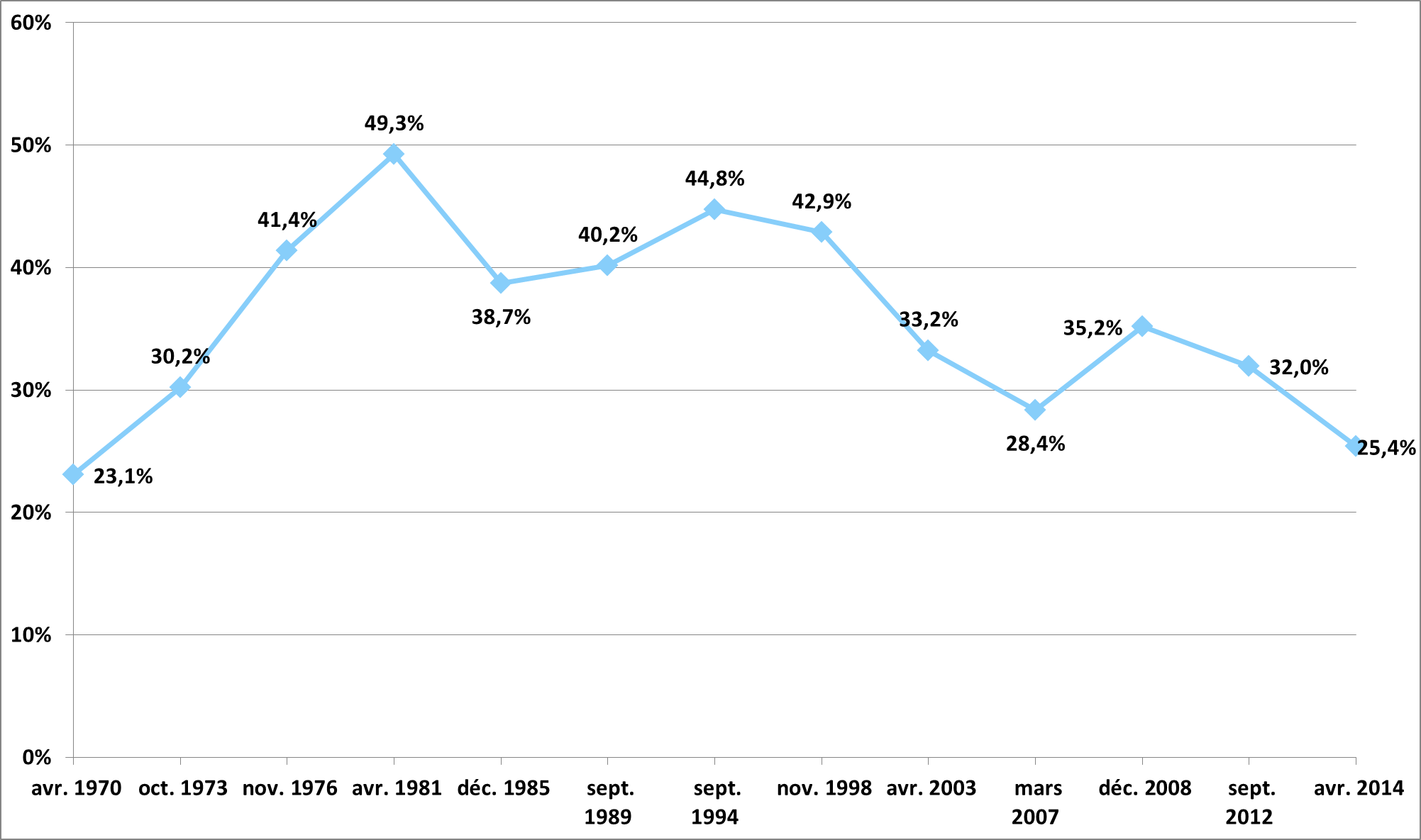 Chart of election resultat of the Parti quebecois.